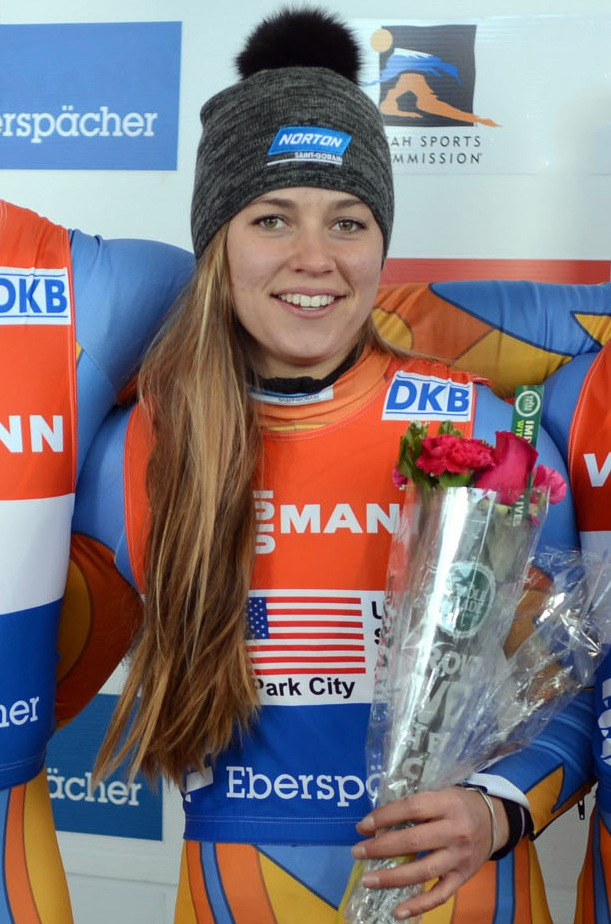 Kate Hansen displays flowers after striking silver in the team relay race at the 2013 World Cup Luge stop Dec. 14 at Utah Olympic Park in Park City, Utah. U.S. Army photo by Tim Hipps, IMCOM Public Affairs